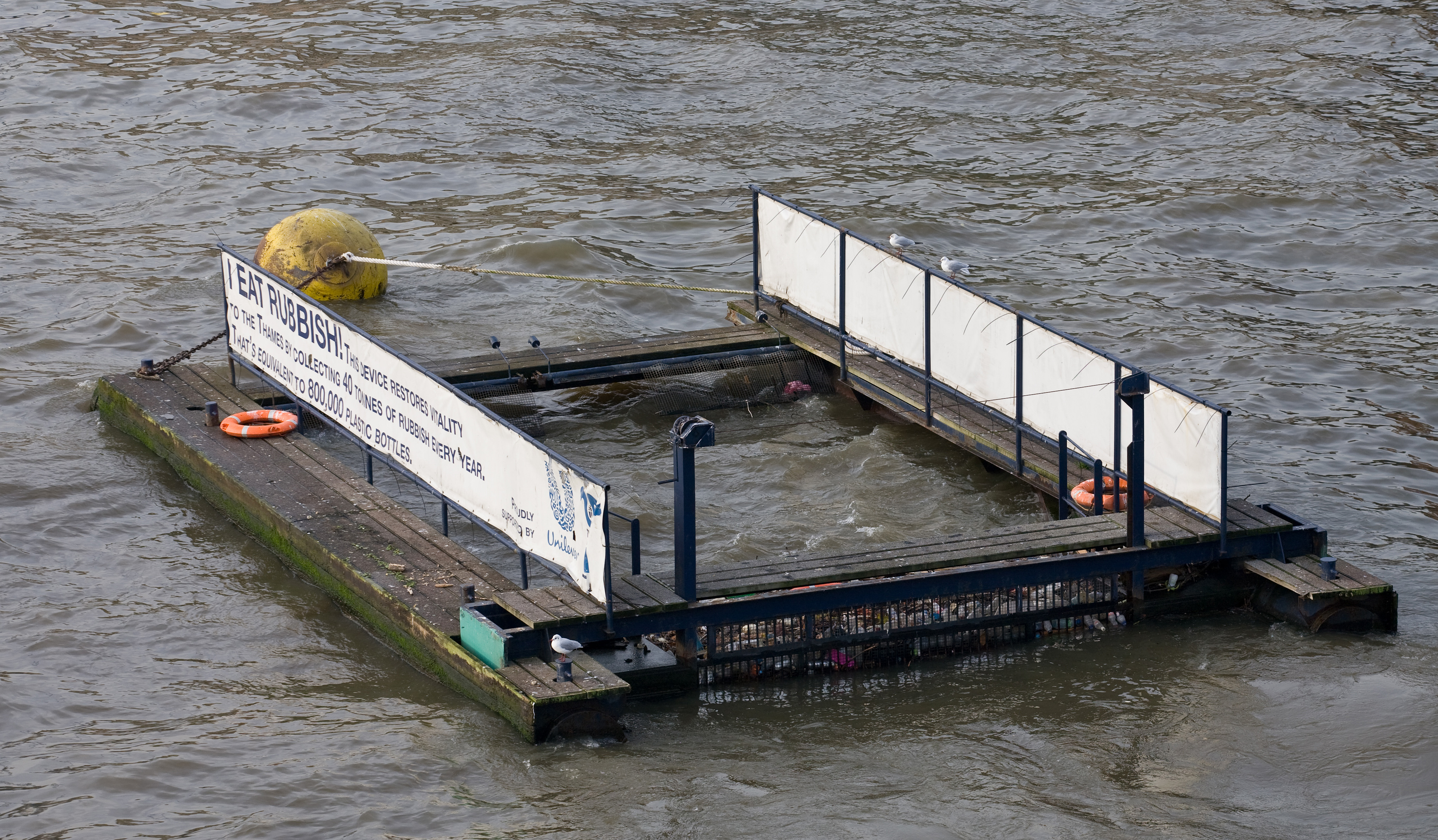 A Rubbish Trap on the River Thames near the Millenium Bridge in the central London, England.